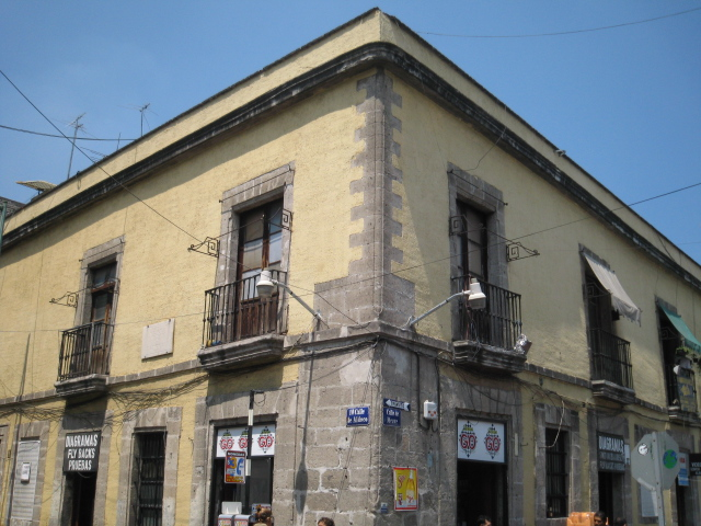 House of Angela Peralta in the corner of streets Aldaco and Meave in Mexico City Downtown